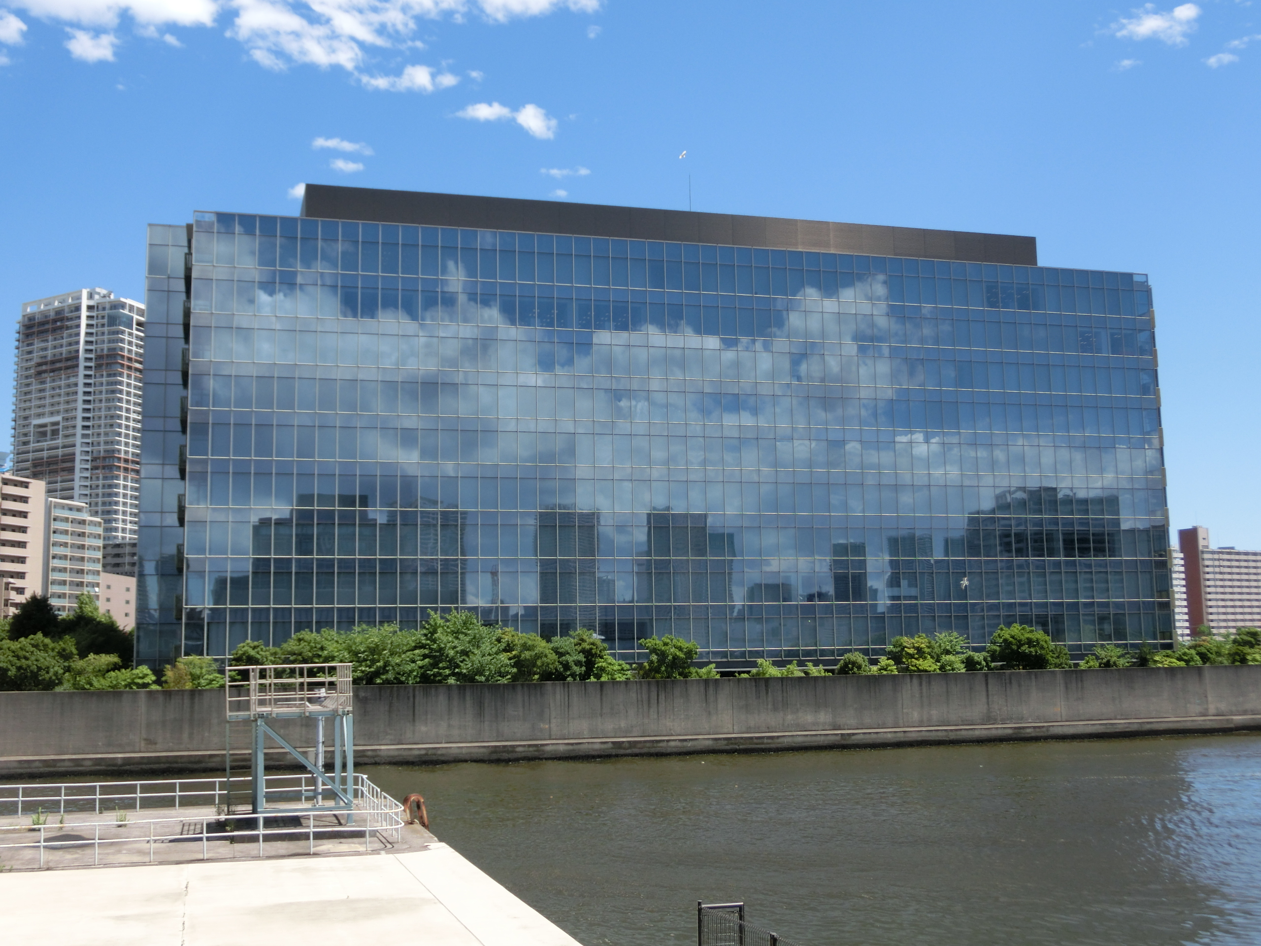 KDX Toyosu Grand Square